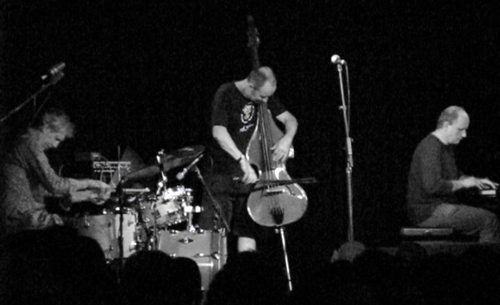 The Necks at The Corner Hotel Melbourne, Australia. Photo taken by myself in February 2010.